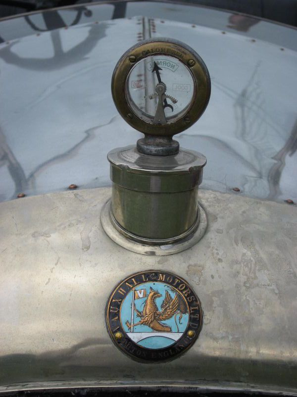 Badge and water temperature gauge 1921 Vauxhall 25HP Kington tourer Wilton Windmill car show 2006 Chassis D3750 Engine D3912 Registration XW 289 Information source